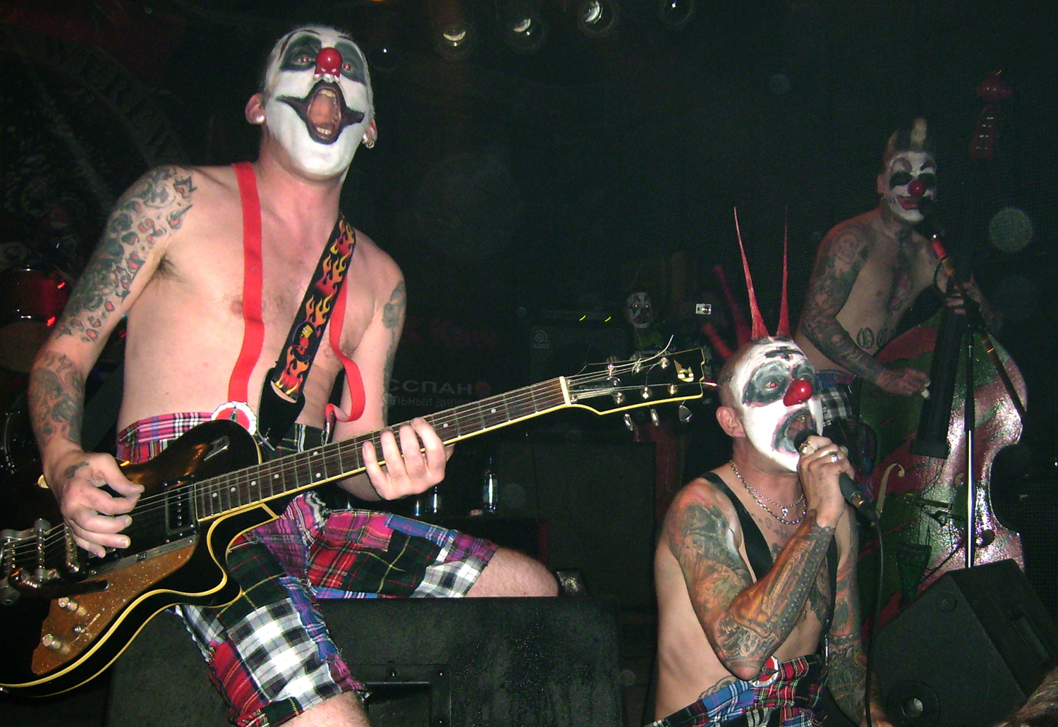 Klingon's gig in St-Petersburg, Russia, 2008